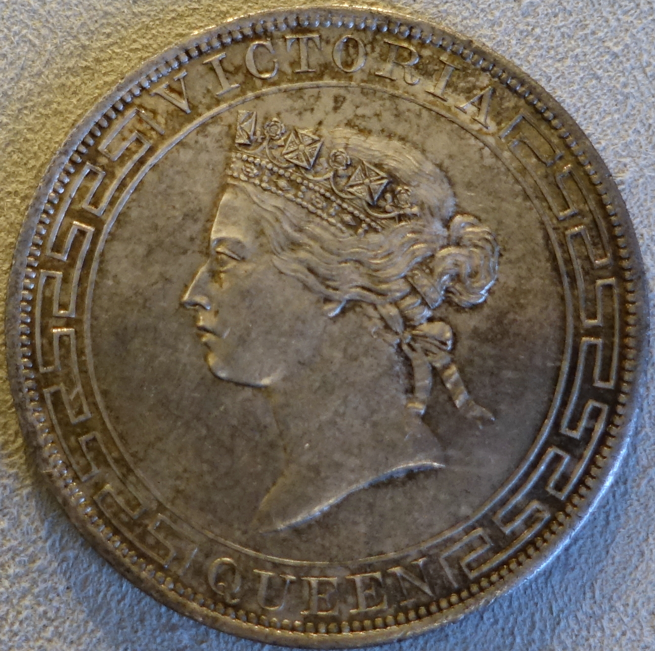 Exhibit in the Bode-Museum, Berlin, Germany. This work is in the public domain because the artist died more than 100 years ago.